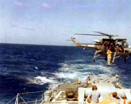 A Brazilian navy Westland UH-2 Wasp hovering over the fantail of the U.S. Navy guided missile destroyer USS Mahan (DDG-42) during the "UNITAS XVIII" military exercise, in 1977.